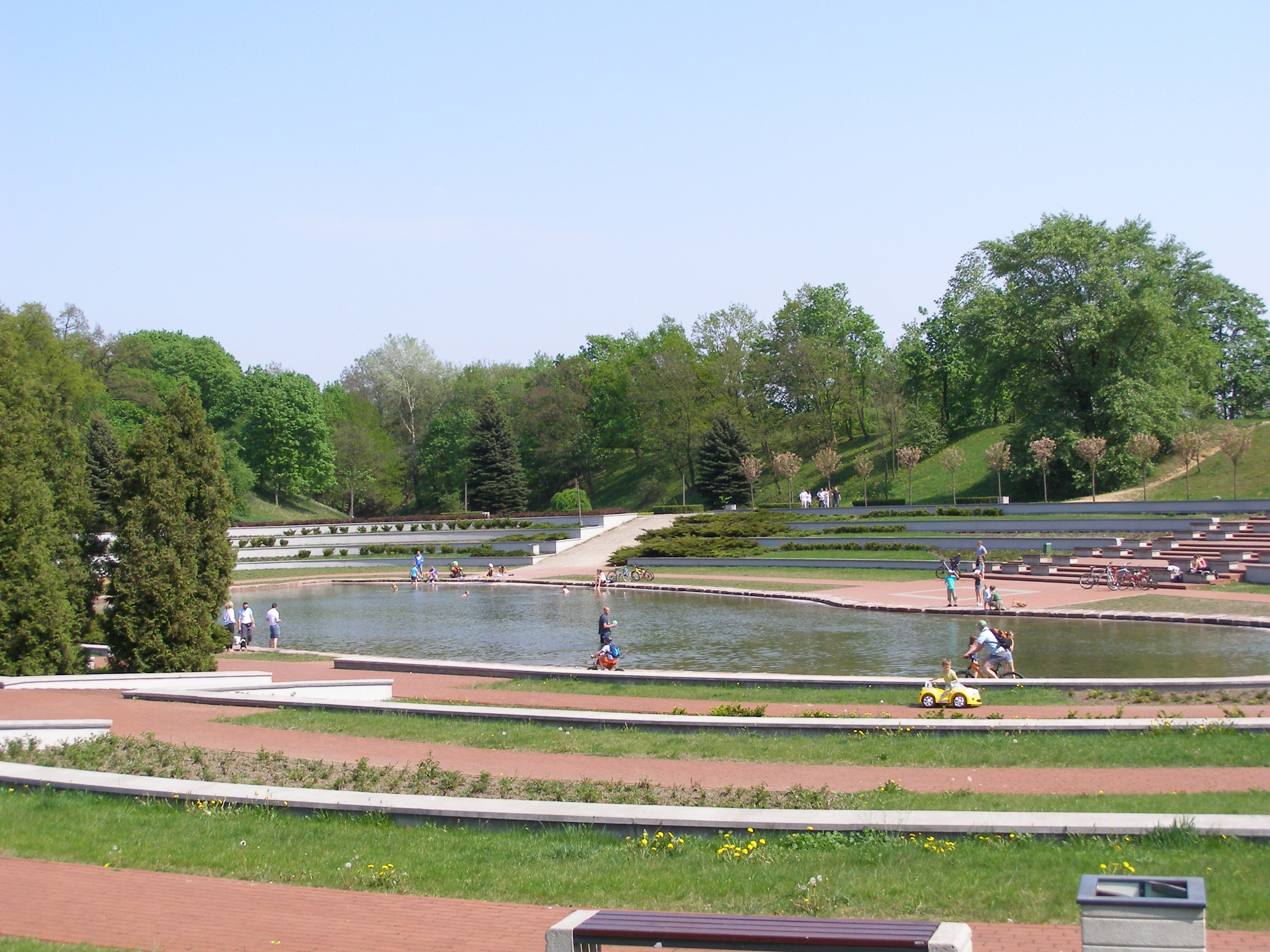 Poznań - Rosarium in Park Cytadela